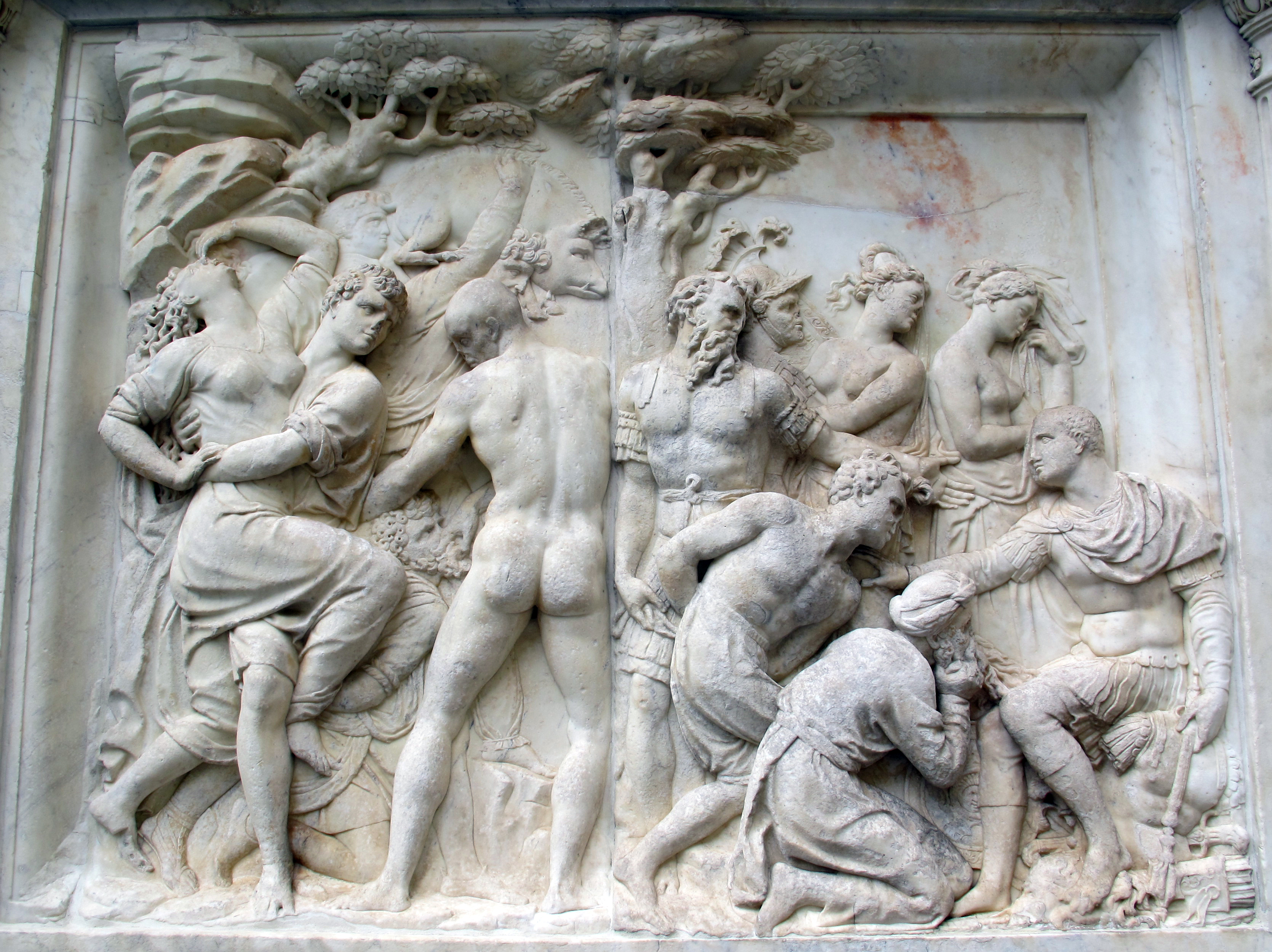 Monument to Giovanni delle Bande Nere (Florence)